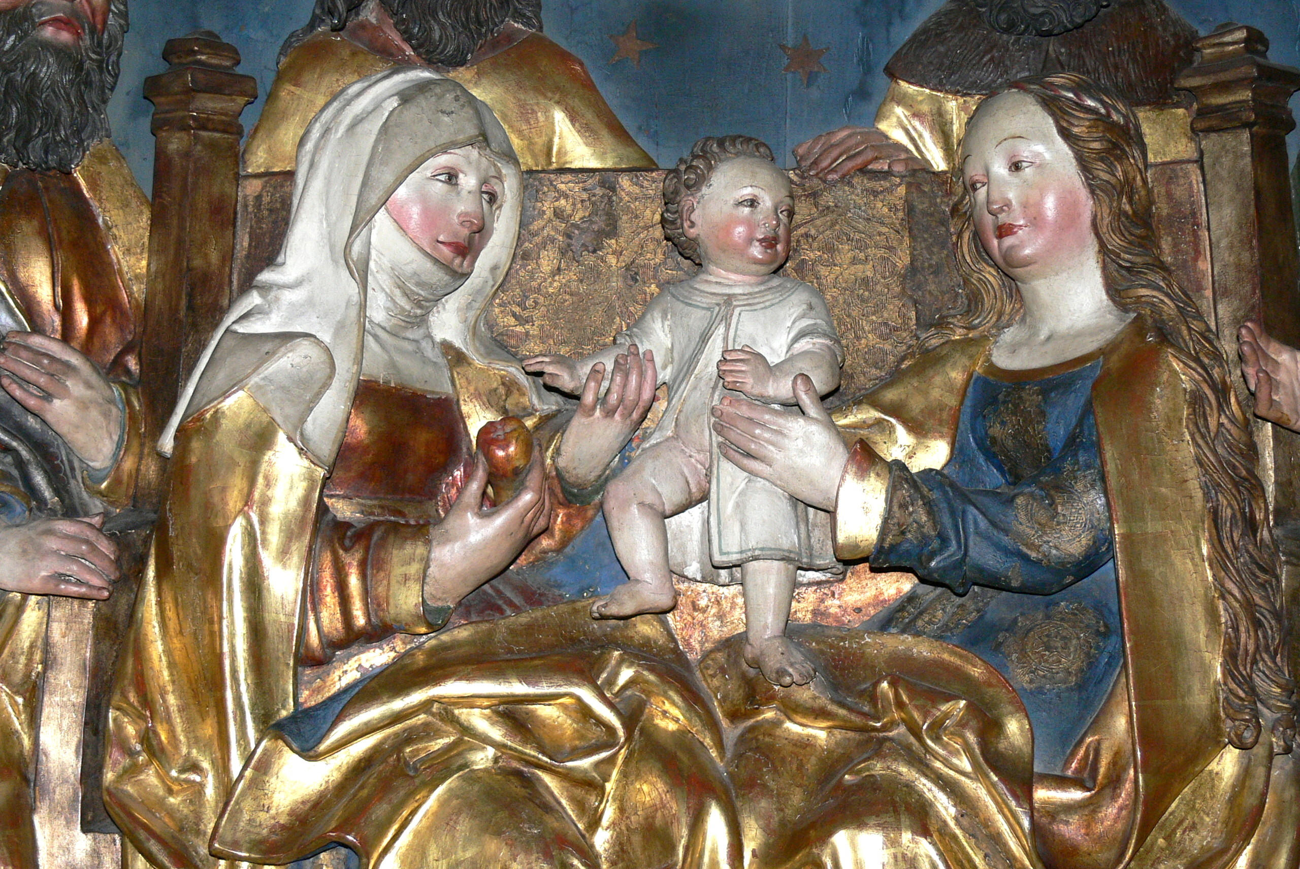 Langenzenn ( Bavaria ). City church - Altar of the Holy Kinship ( 1508 ). Detail: Saint Anne with Virgin Mary and Child.